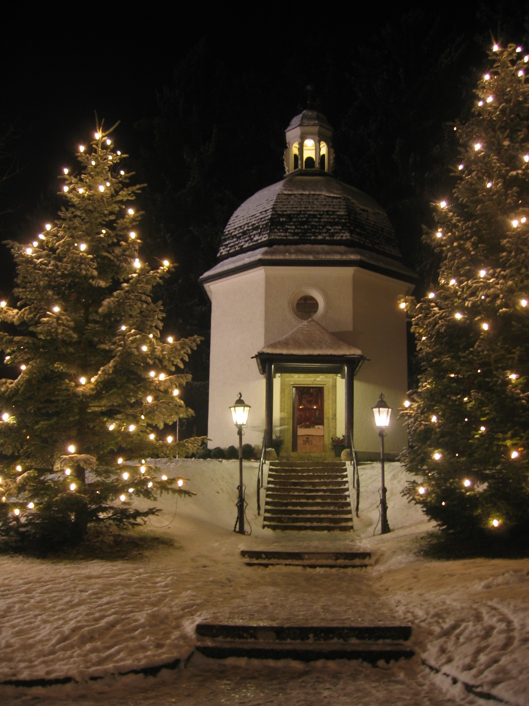 Silent Night Chapel in Oberndorf bei Salzburg, Austria. Photograph by Gakuro